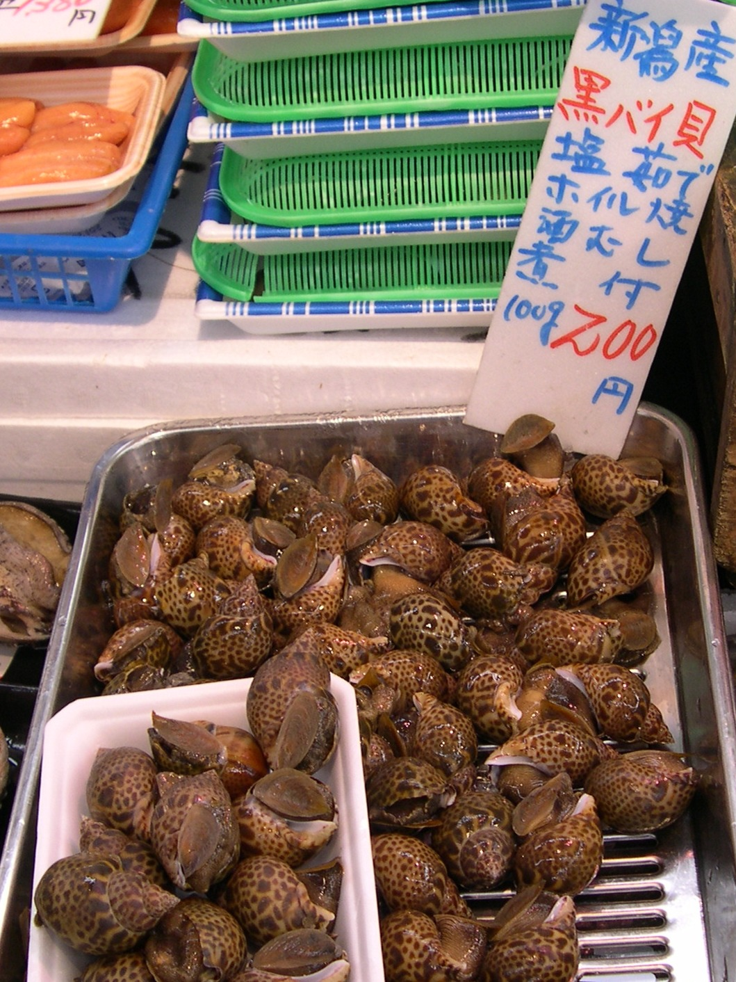 Babylonia japonica (Reeve, 1842)（Babyloniidae) from Niigata Prefecture for sale at a fishmarket in Tokyo, Japan. 200Yen/100g.